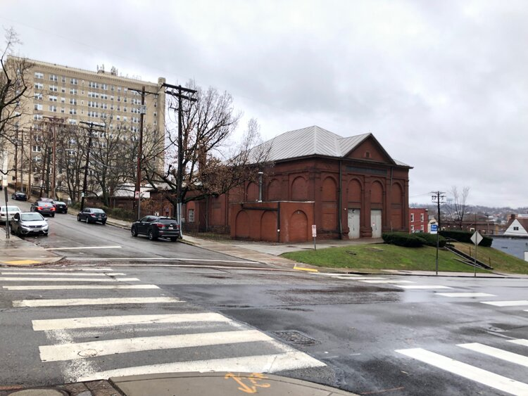 A photo of the Herron Hill Pumping Station in 2019.